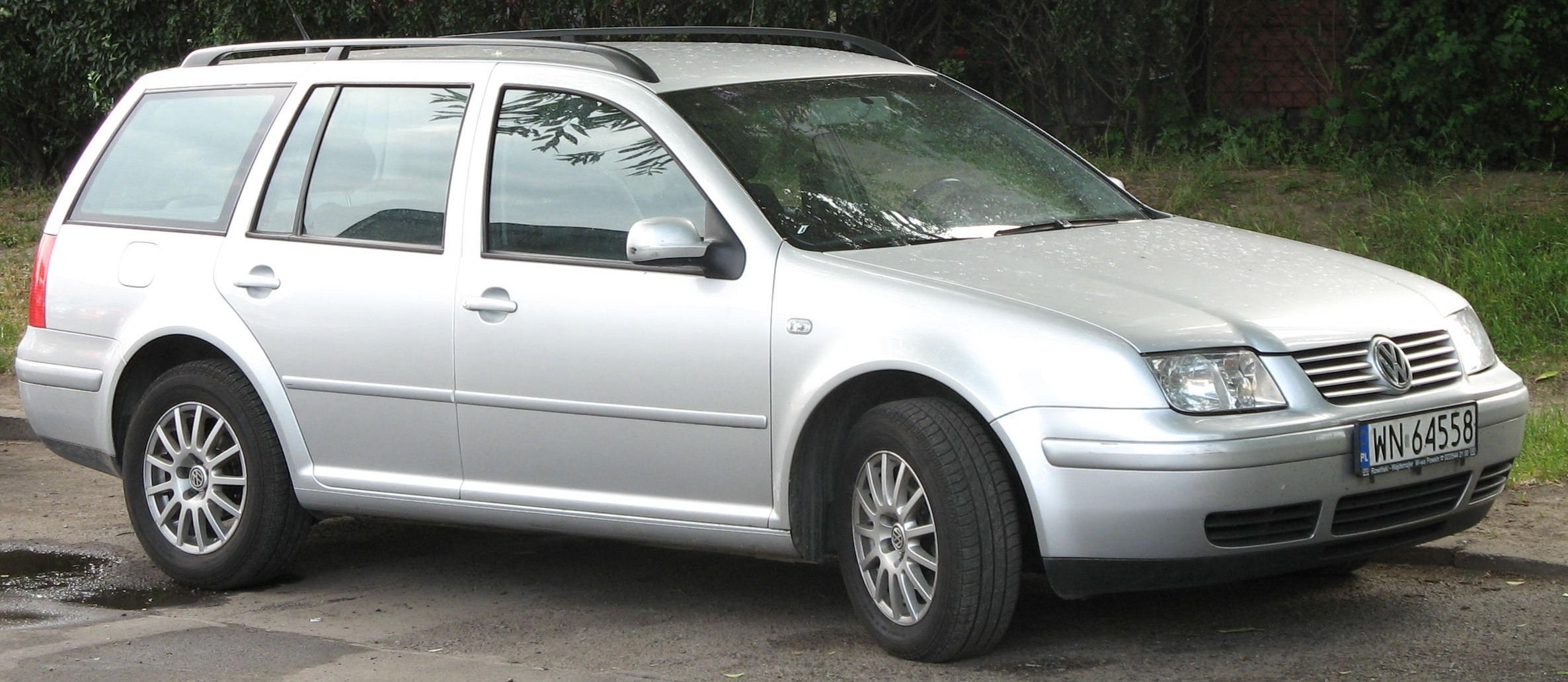 Volkswagen Bora Variant, photographed in Warsaw